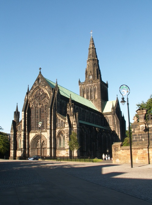 Glasgow Cathedral this be.